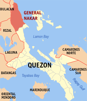 Map of Quezon showing the location of General Nakar